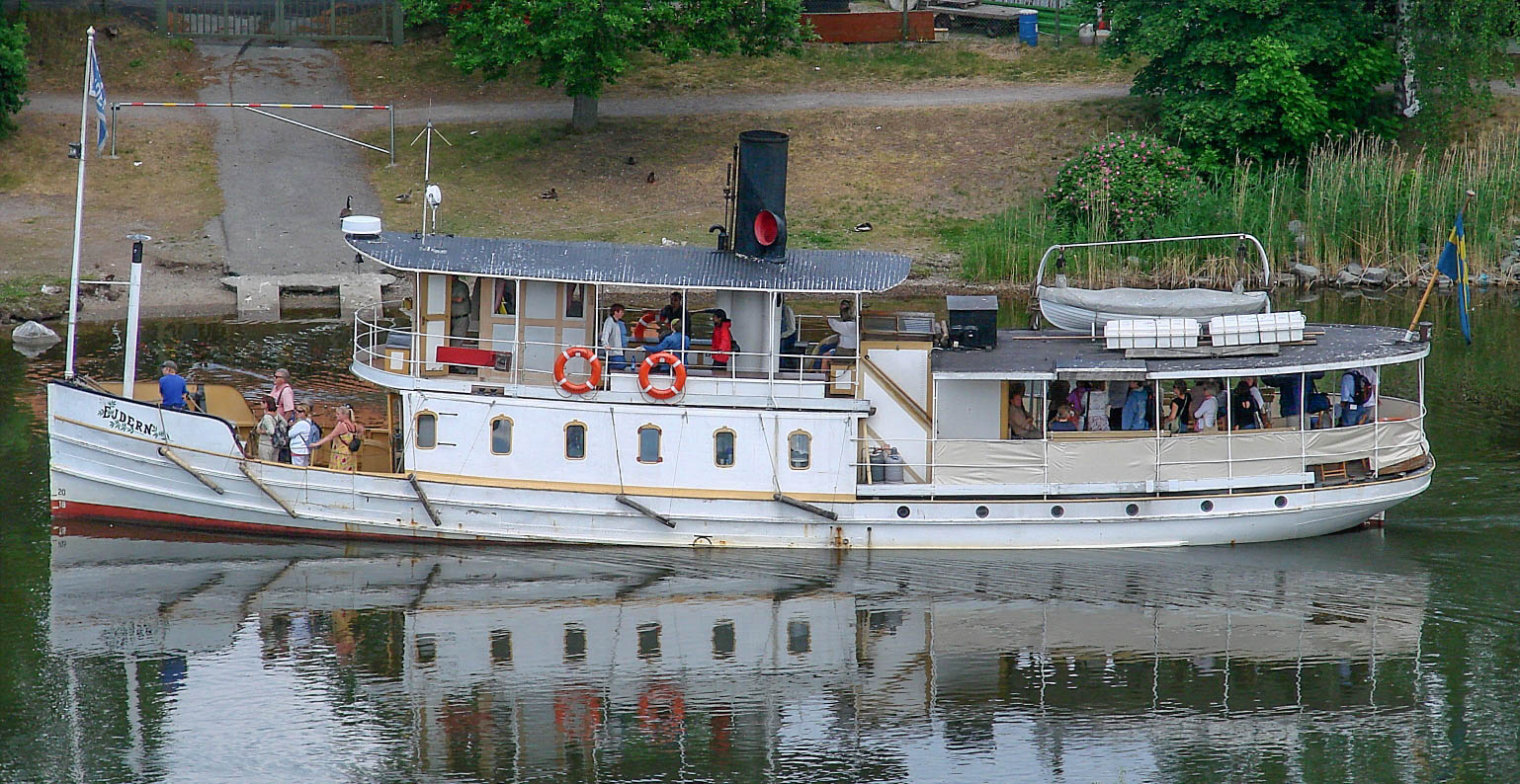 Ejdern approaches dock.